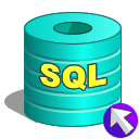 Labeled (SQL) database icon with shortcut identification